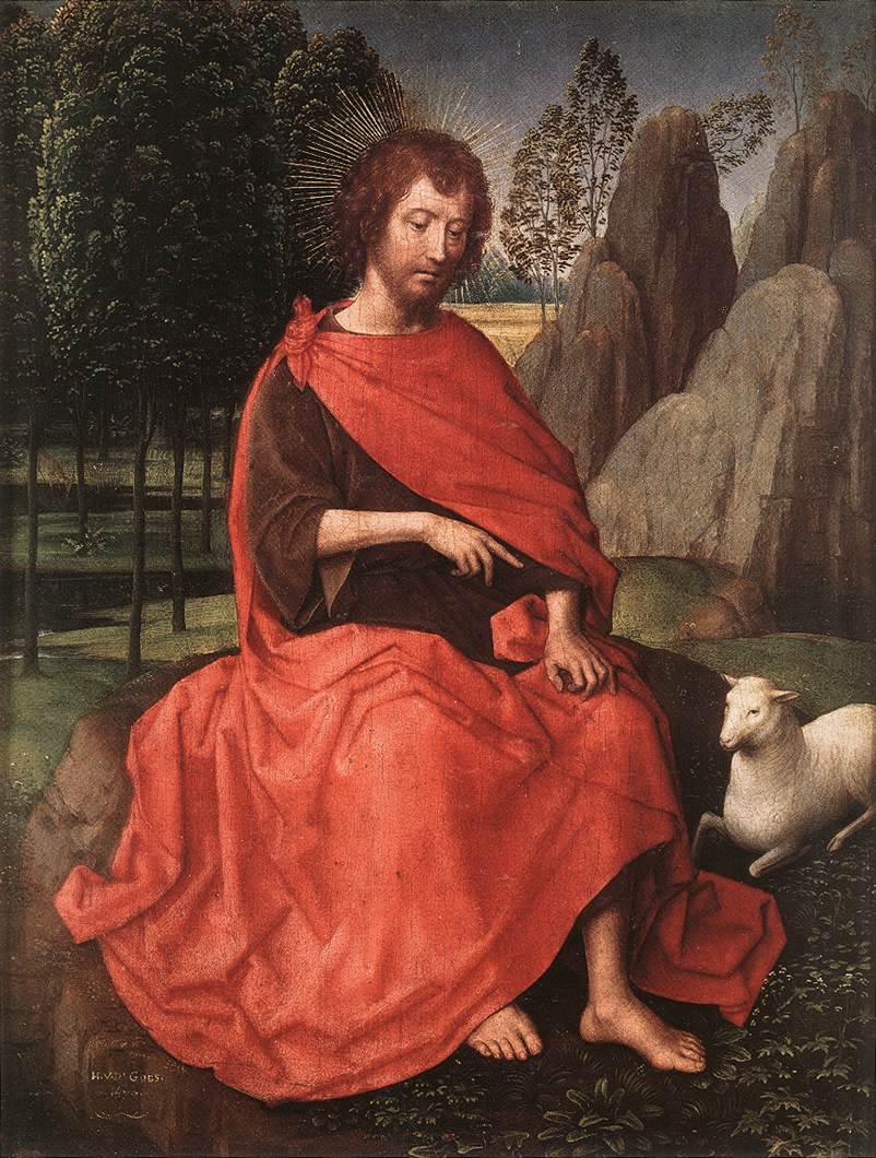 left wing